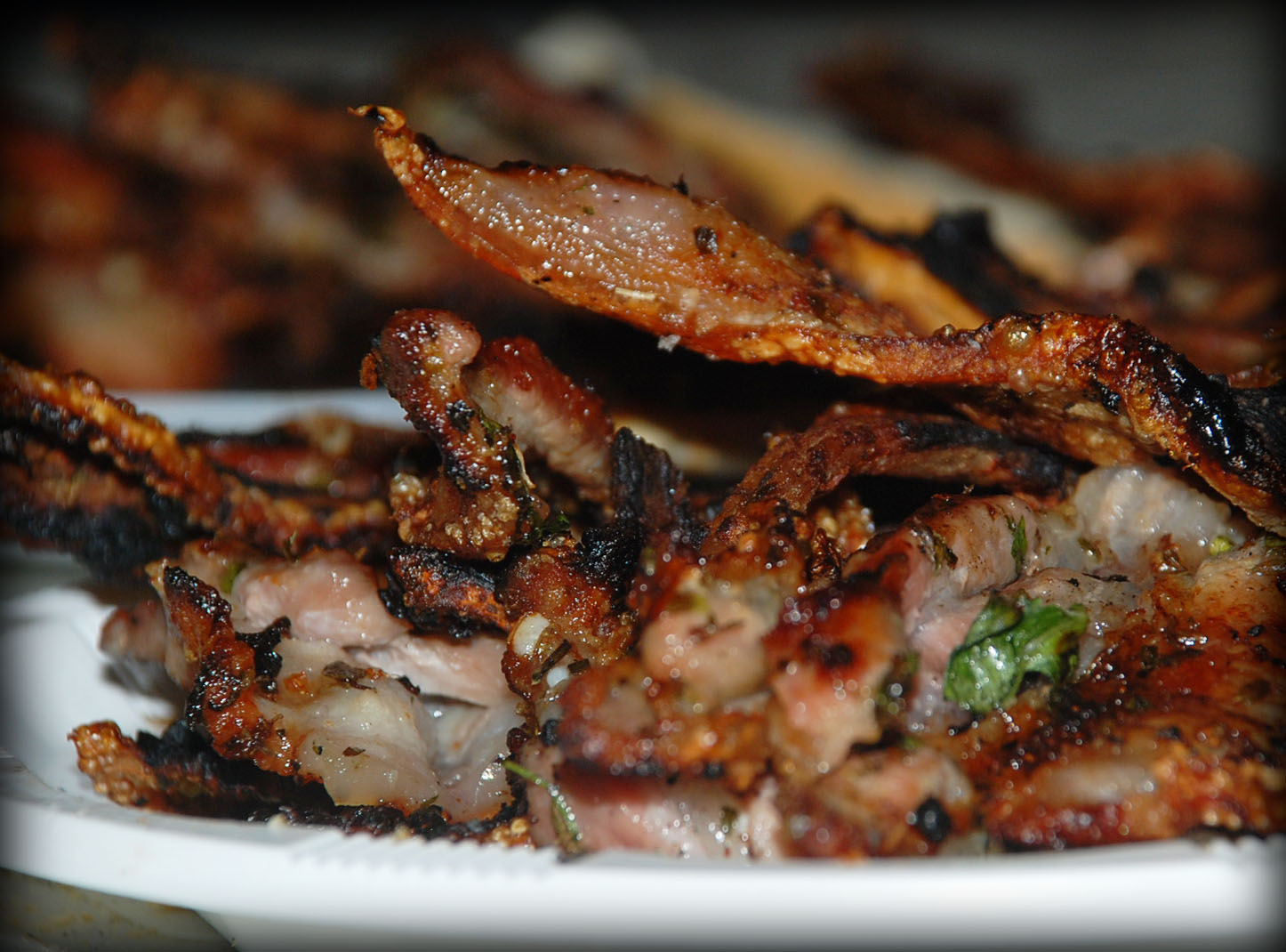 Pork belly roasted in Villamelendro de Valdavia (Palencia, Castile and León).